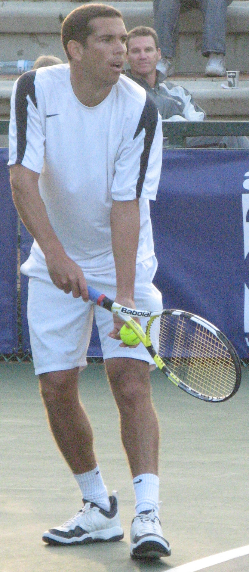 Israeli tennis player Harel Levy at the Israel tennis championship 2008 final against Dudi Sela